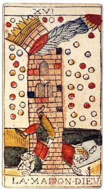 An original card from the tarot deck of Jean Dodal of Lyon, a classic Tarot of Marseilles deck which dates from 1701-1715.